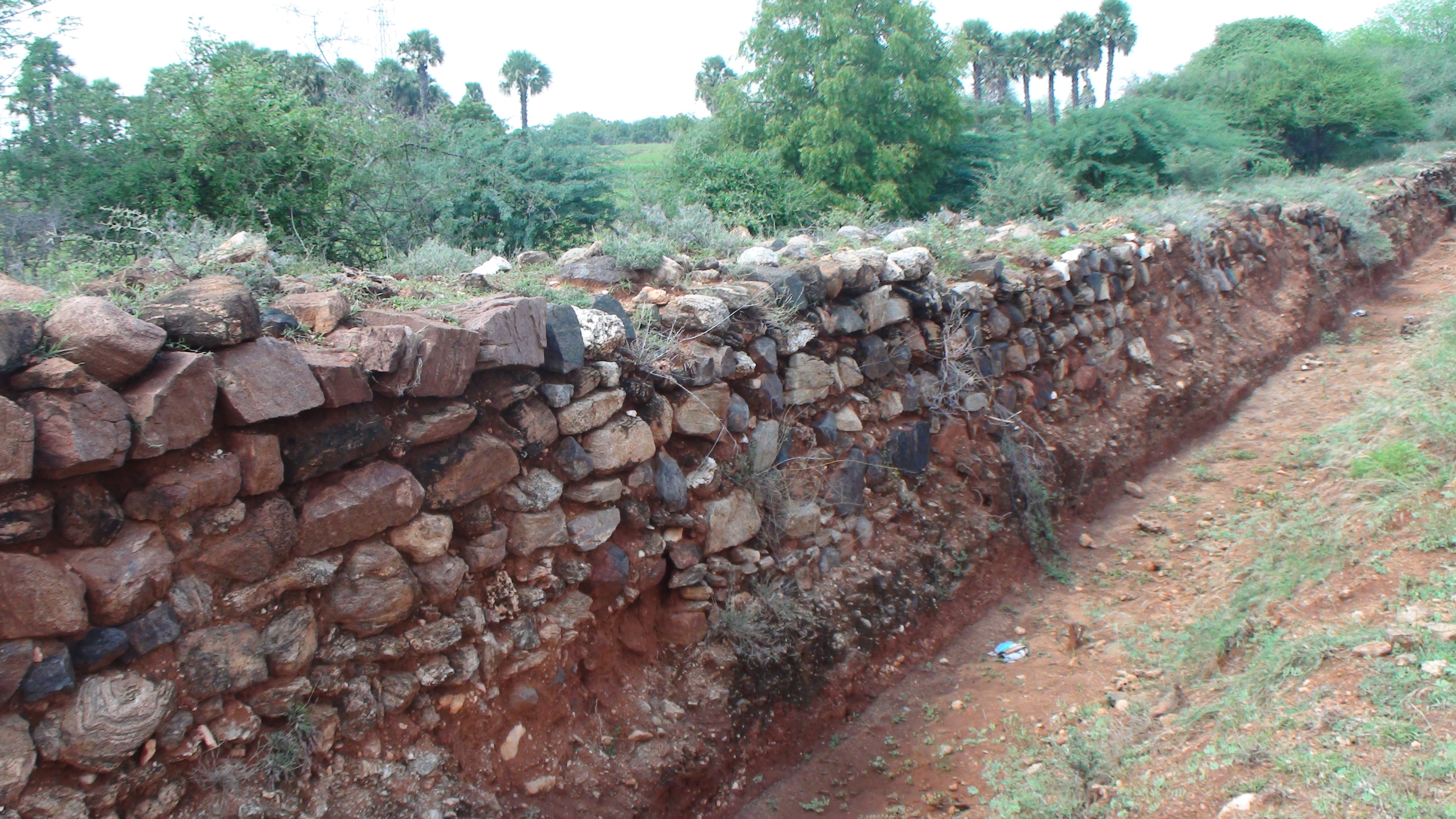 A section of the great wall of Tamilnadu